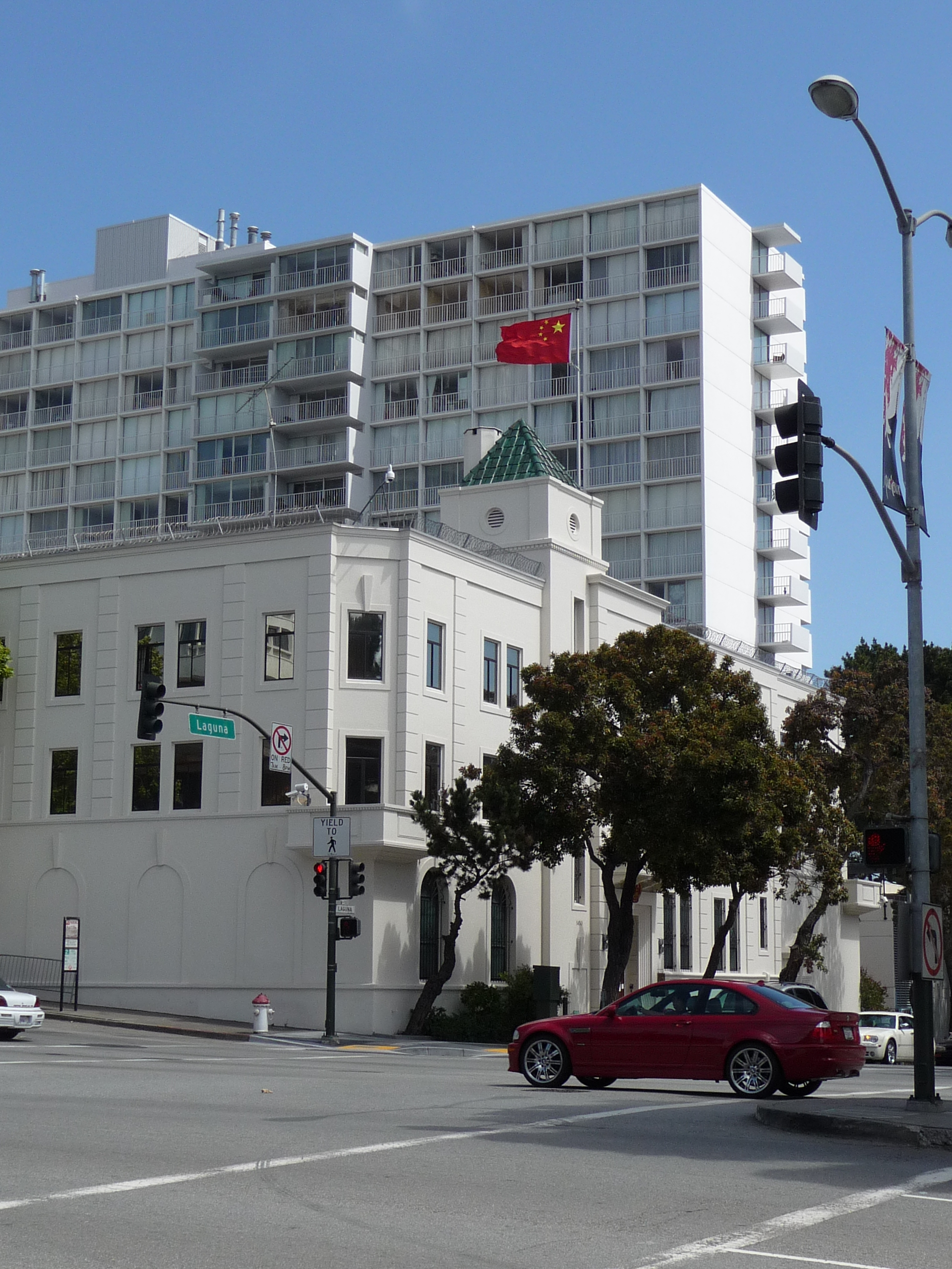 Picture of the Consulate-General of the People's Republic of China in San Francisco, USA.